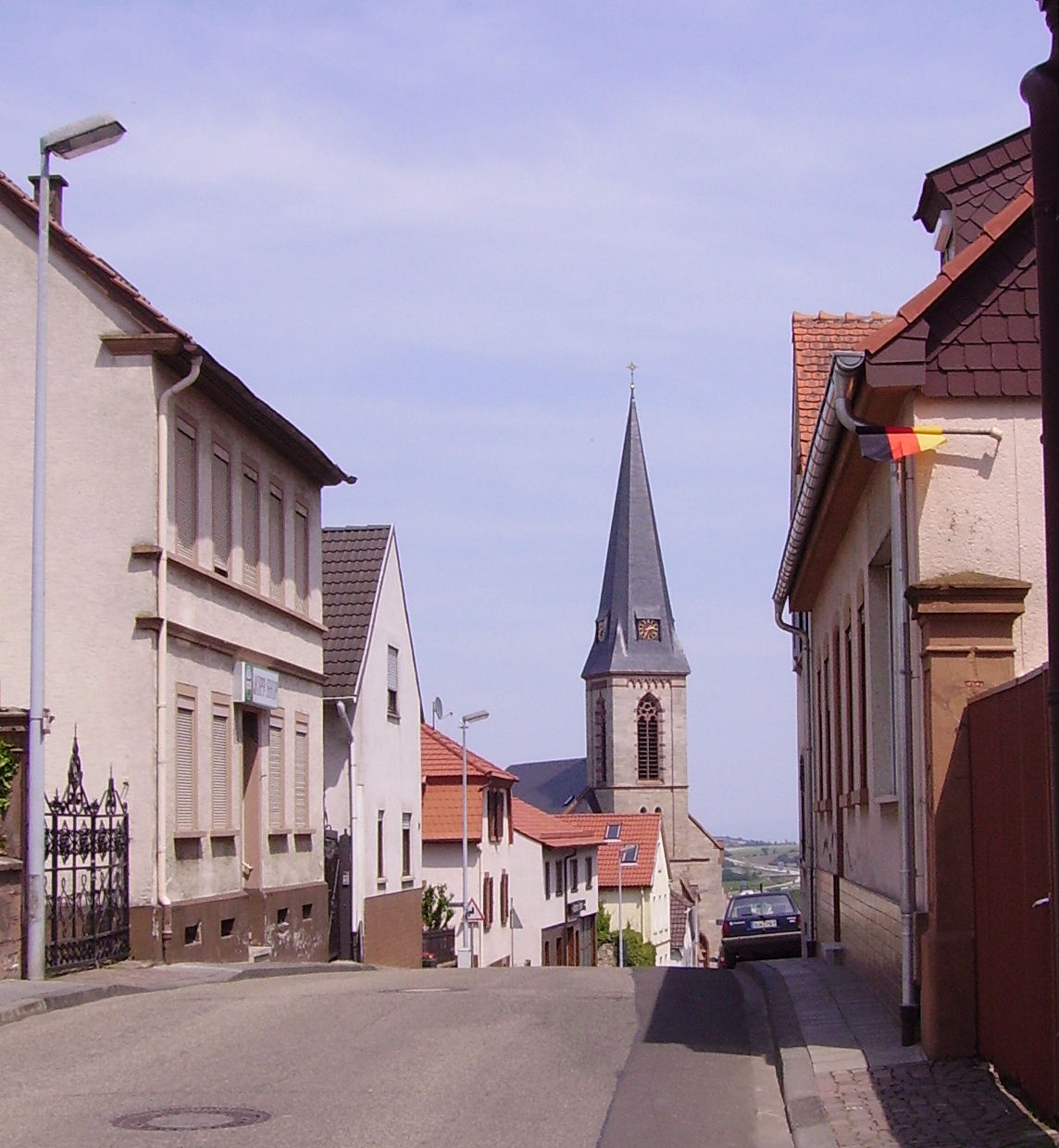 views of Wattenheim in the Palatinate, Germany